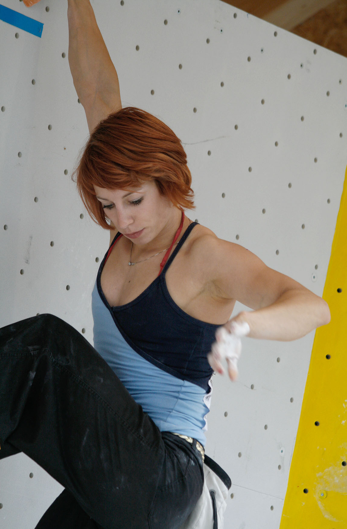 Natalija Gros during qualifications at the IFSC Boulder Worldcup Vienna 2010.